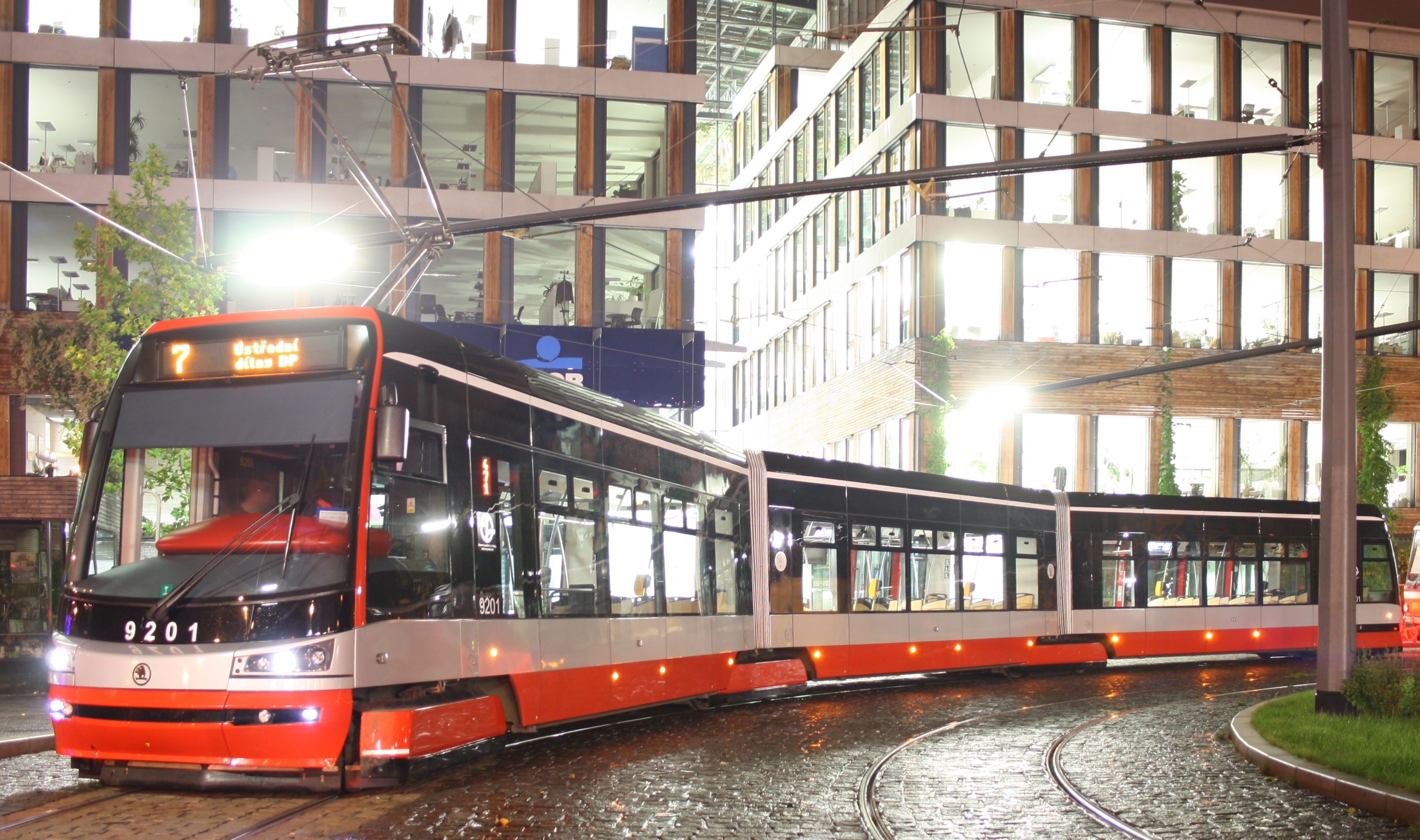 Škoda 15T tram during first day of operation with passengers in Radlická terminus, Prague, CZ This photograph was taken with a DSLR from WMCZ's Camera grant.